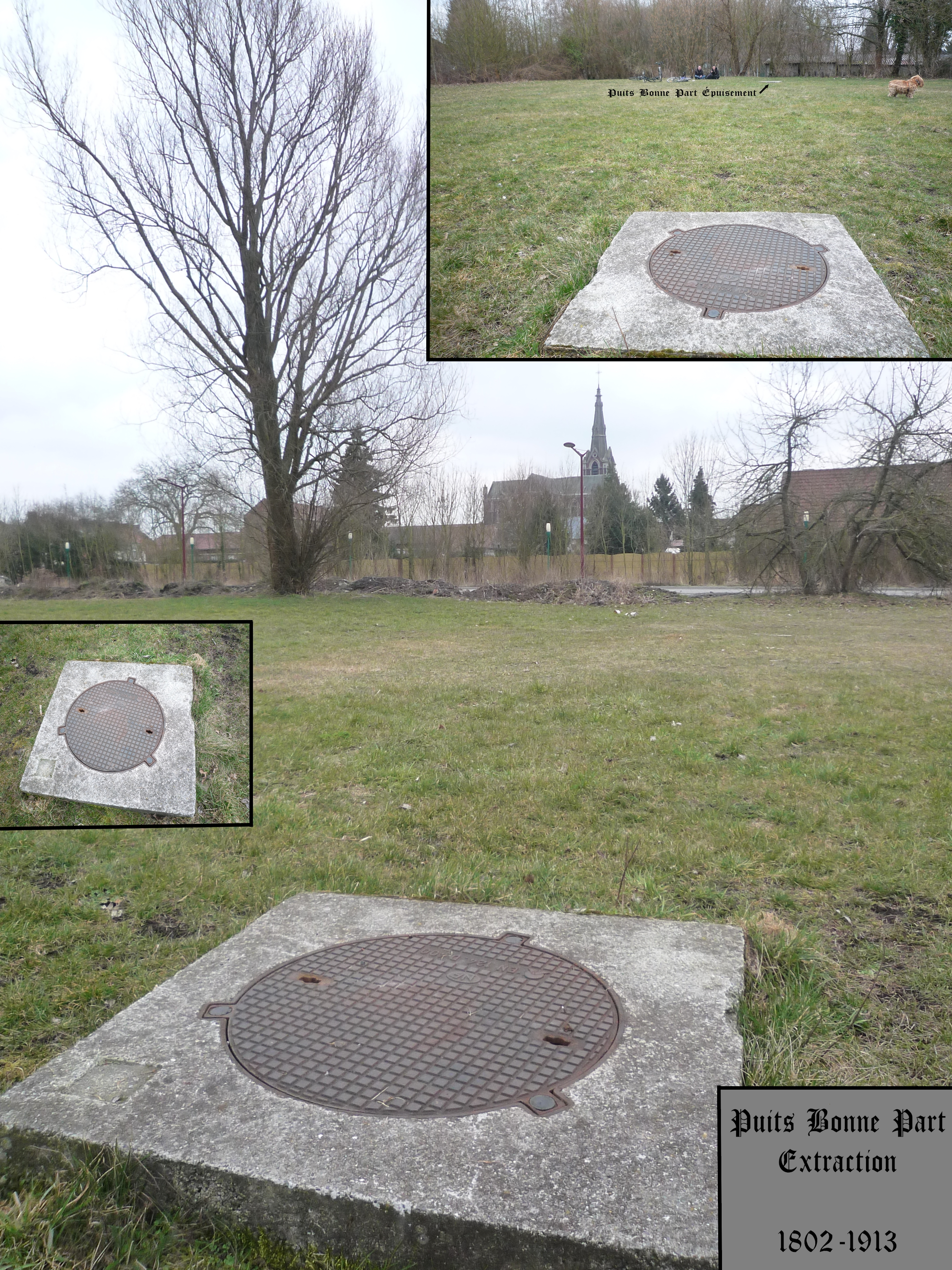 Pit Bonne Part, Compagnie des mines d'Anzin, Fresnes-sur-Escaut, Nord, Nord-Pas-de-Calais, France.